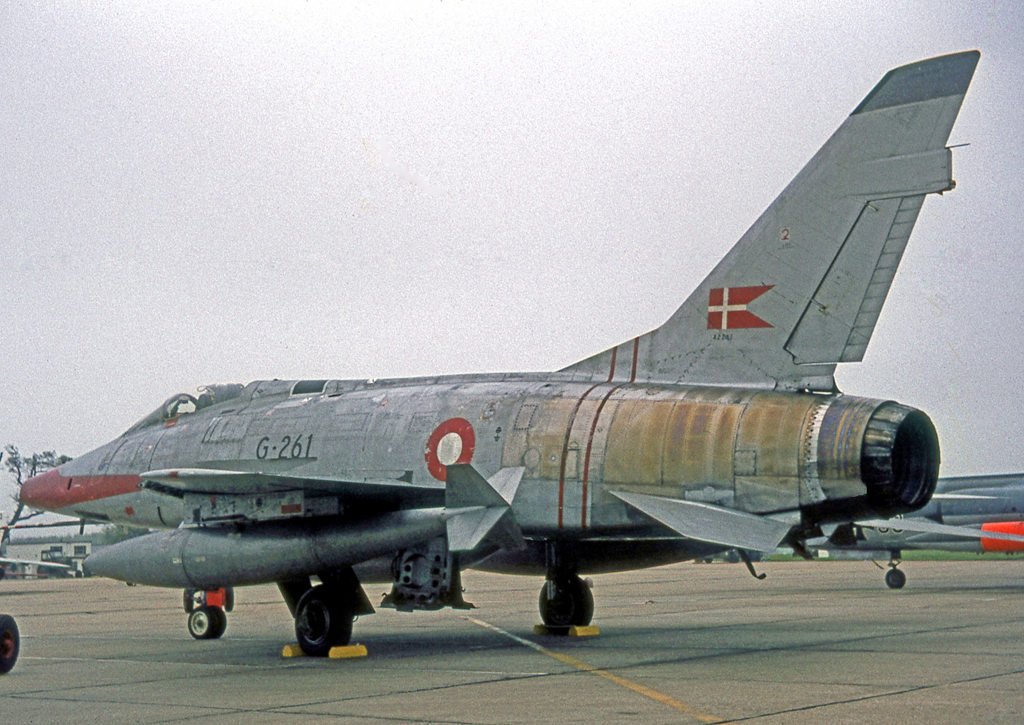 North American F-100D Super Sabre G-261 of the Royal Danish Air Force at RAF Waddington in 1965